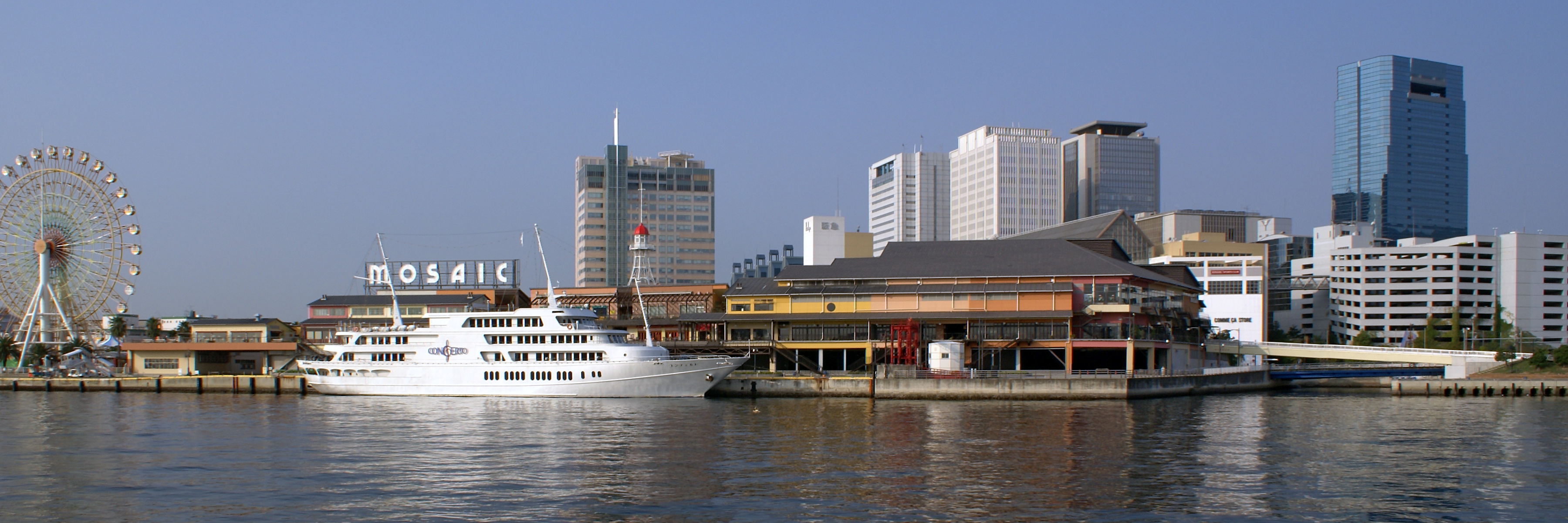 Harborland "Takahama-ganpeki" of the Kobe harbor ( Kobe, Hyogo prefecture, Japan)